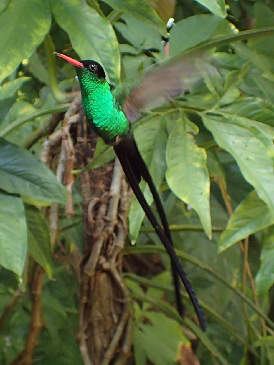 Male Red-billed Streamertail (Trochilus polytmus) in Saint James Parish, Jamaica